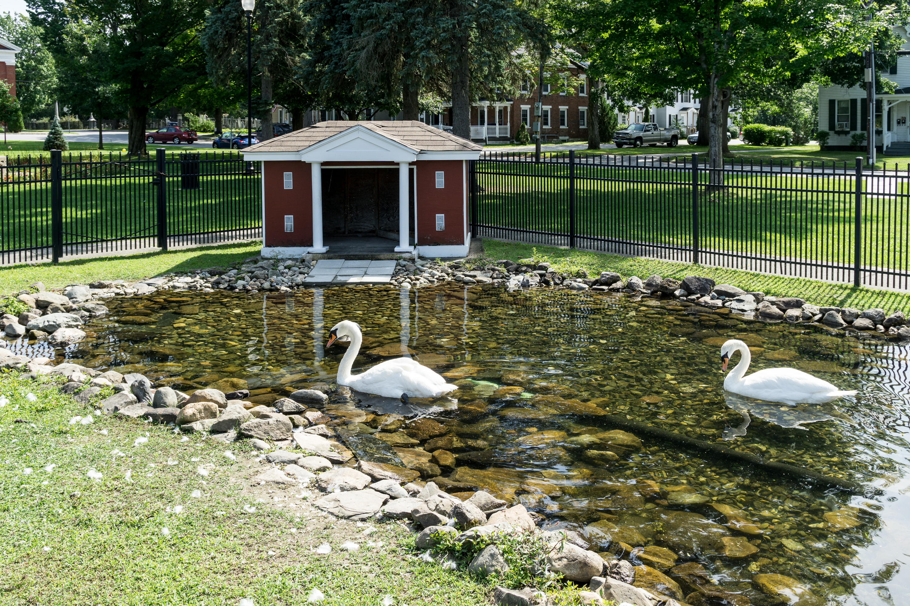 Two hundred years ago, an Englishman by the name of Captain William Swanton founded what is now known as the Town of Swanton, Vermont. On the occasion for the 3rd annual Swanton Summer Festival it was deemed desirable that a link with Britain, the homeland of the founder of Swanton, should be established in a tangible manner, and thus on the 29th day of July, in the year 1961, two swans were formally presented by Hon. T.A. Kirkland, M.D., minister without Portfolio, Province of Quebec, and accepted by F. Ray Keyser, Jr., Governor of the State of Vermont. The swans, by kind permission of Her Majesty, Queen Elizabeth II, and in conjunction with the Norfolk Naturalist Trust of Hickling Broad, Norfolk, England and the office of the Clerk of the Smallburgh Rural District Council, which includes the Village of Swanton Abbot, were obtained and transported by Trans-Canada Air Lines. The Swanton Chamber of Commerce, which plans the Summer Festival, hopes that the swans will serve as an example to all who pass of the international friendship which exists between, Canada, the United States, and the United Kingdom.